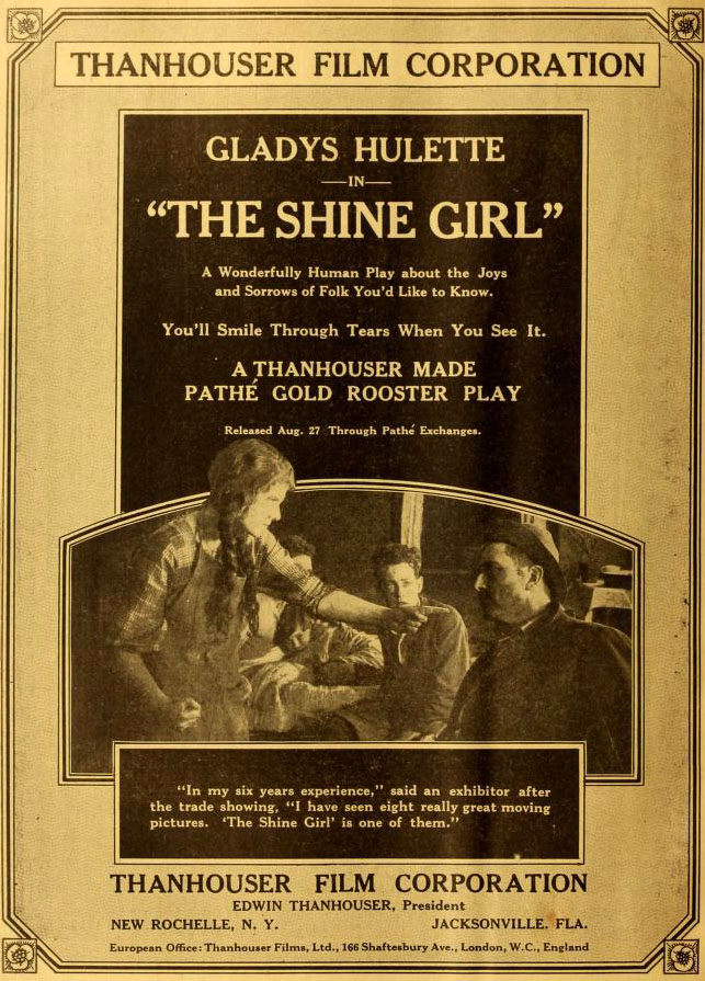 Advertisement in Moving Picture World for the American film The Shine Girl (1916) with Gladys Hulette.